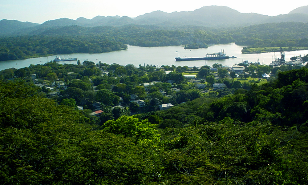 View of the town of Gamboa and the Gatun Lake from the Gamboa Rain Forest Resort's canopy tower.